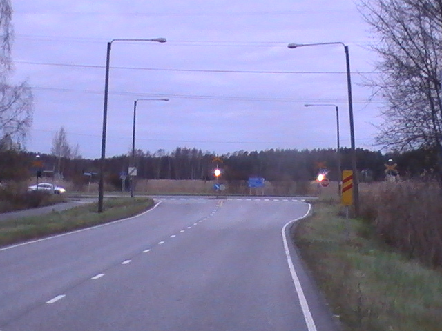 Finnish connecting road 1882 at Raisio. The road runs from Finnish national road 40 to Perno shipyard, Turku. In picture you can see the road's starting point and the railroad crossing of Ihala-Viheriäinen industrial rail.